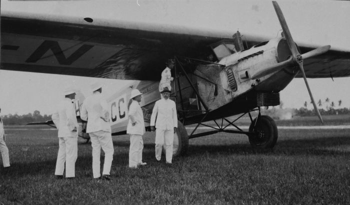 The arrival of the first commercial flight from Holland to Batavia on the horserace court in Medan, East-Sumatra.